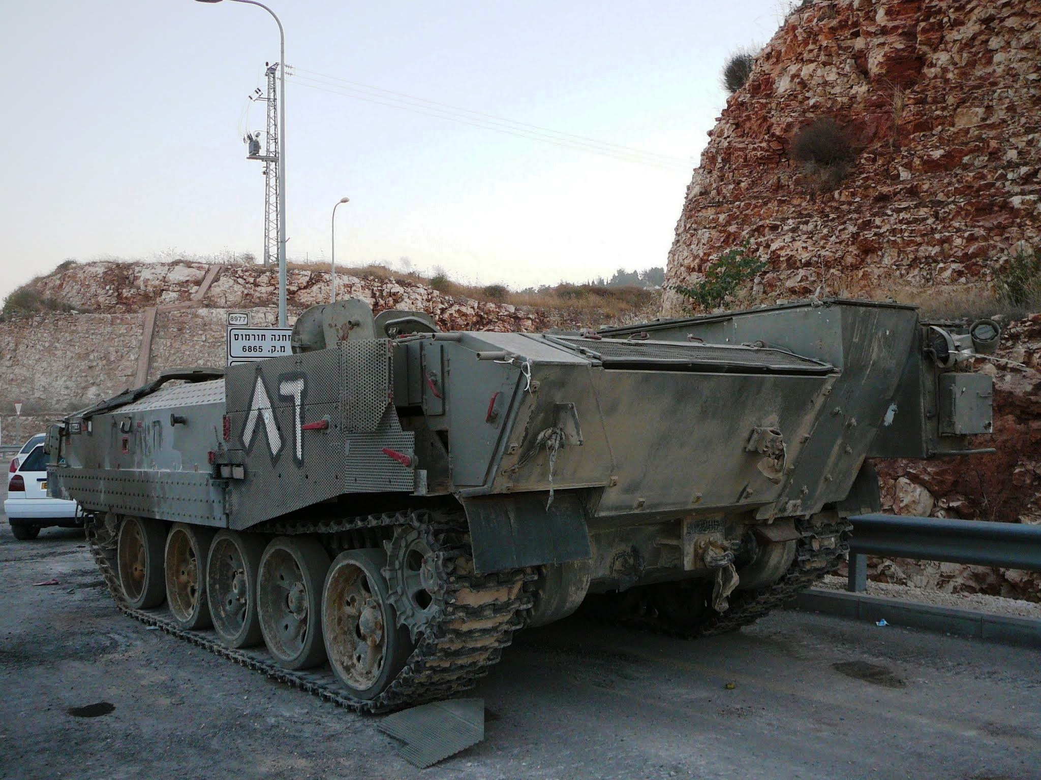 An Israeli Achzarit armored personnel carrier in 2011